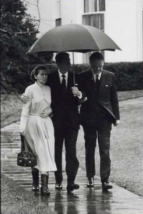 Ronald Reagan walks in the rain with Romuald Spasowski and his wife in December 1981 shortly after his defection